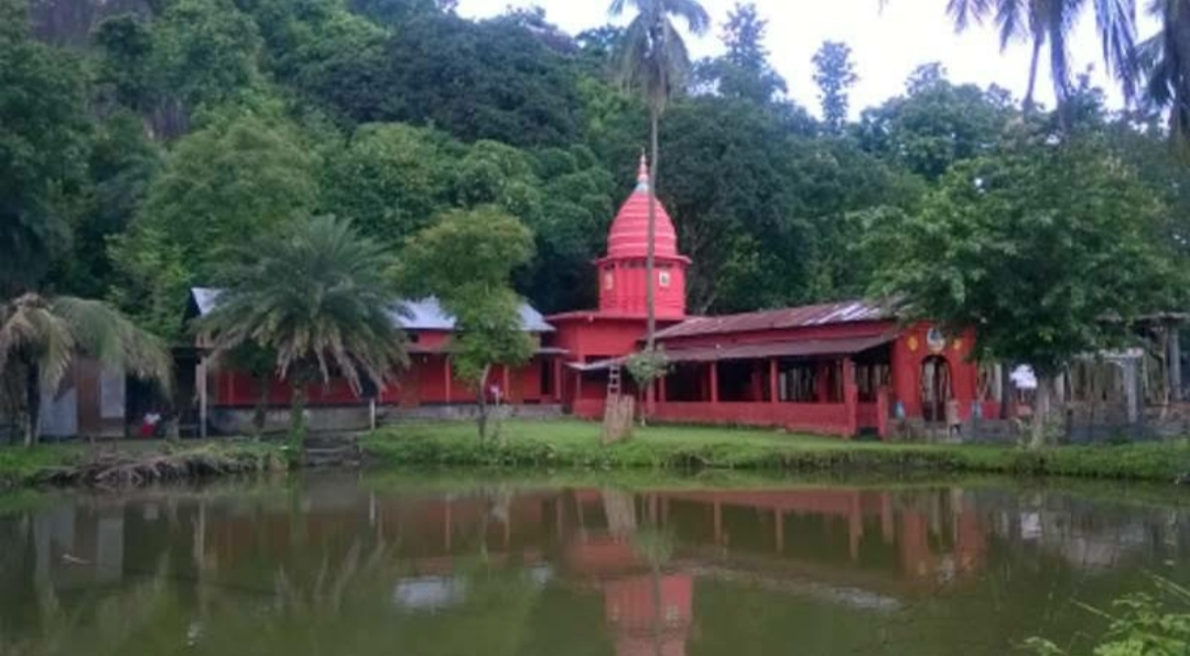 Temple of Assam